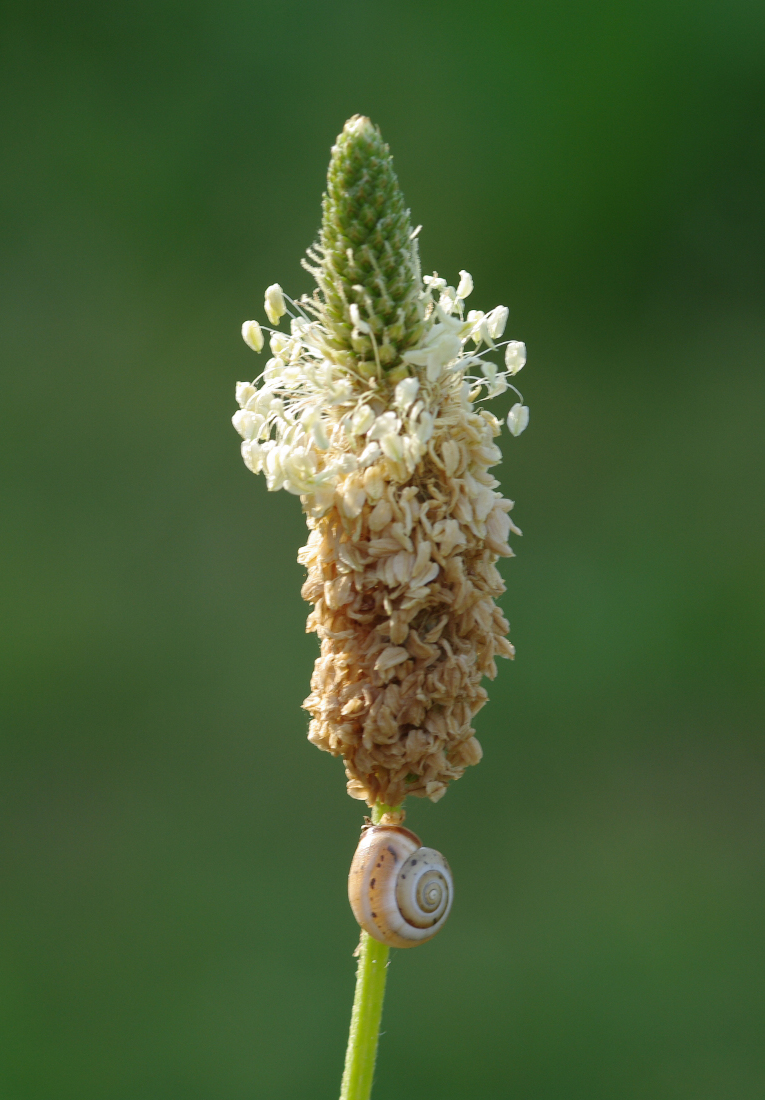 Mediterranean Plantain or Hare's Foot Plantain (Plantago lagopus). Çukurova University Campus, Adana - Turkey.